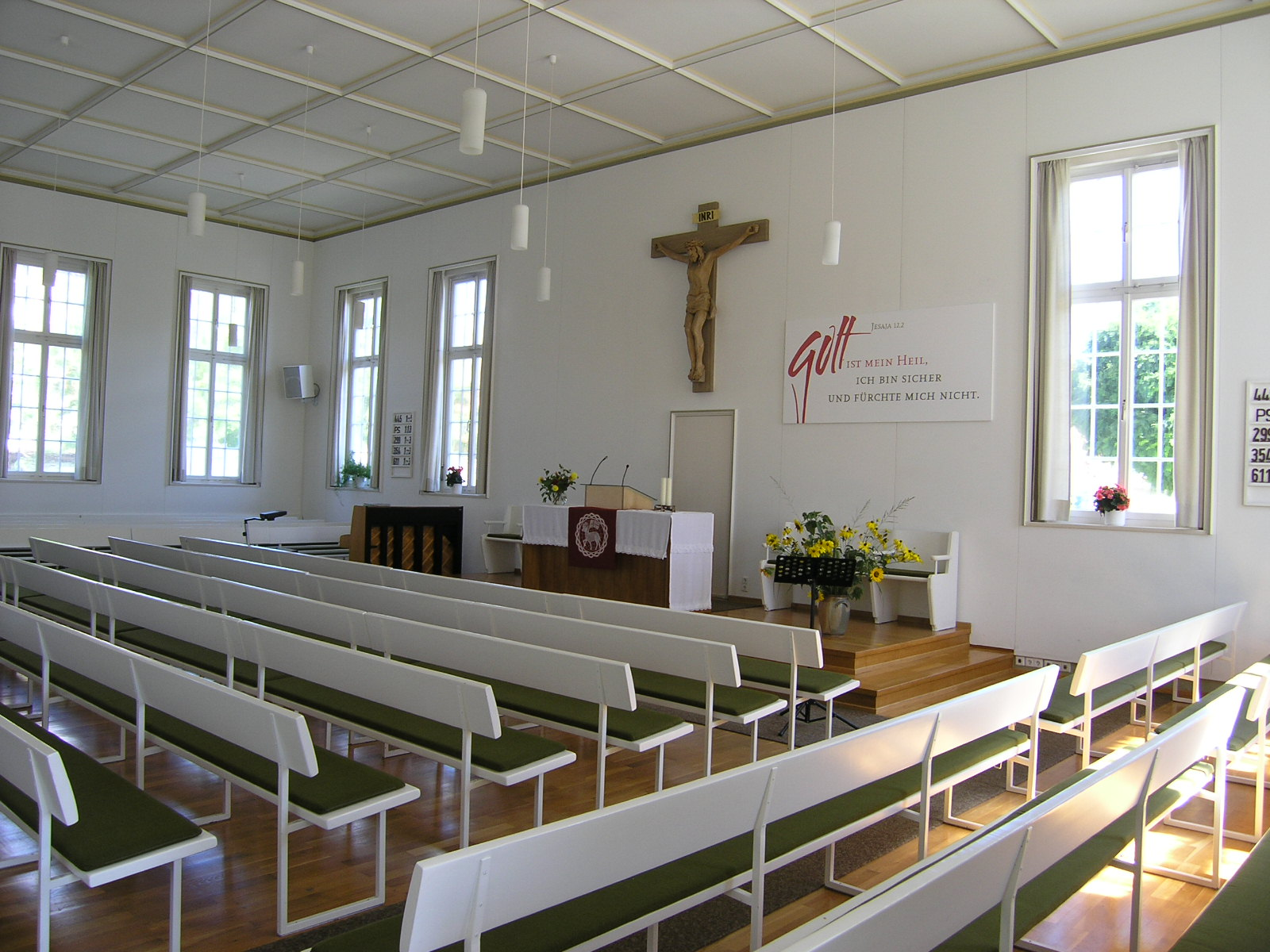 Das Innere des Betsaals The interior of the prayer hall (church) Source, author: Effi Schweizer Date: 2006